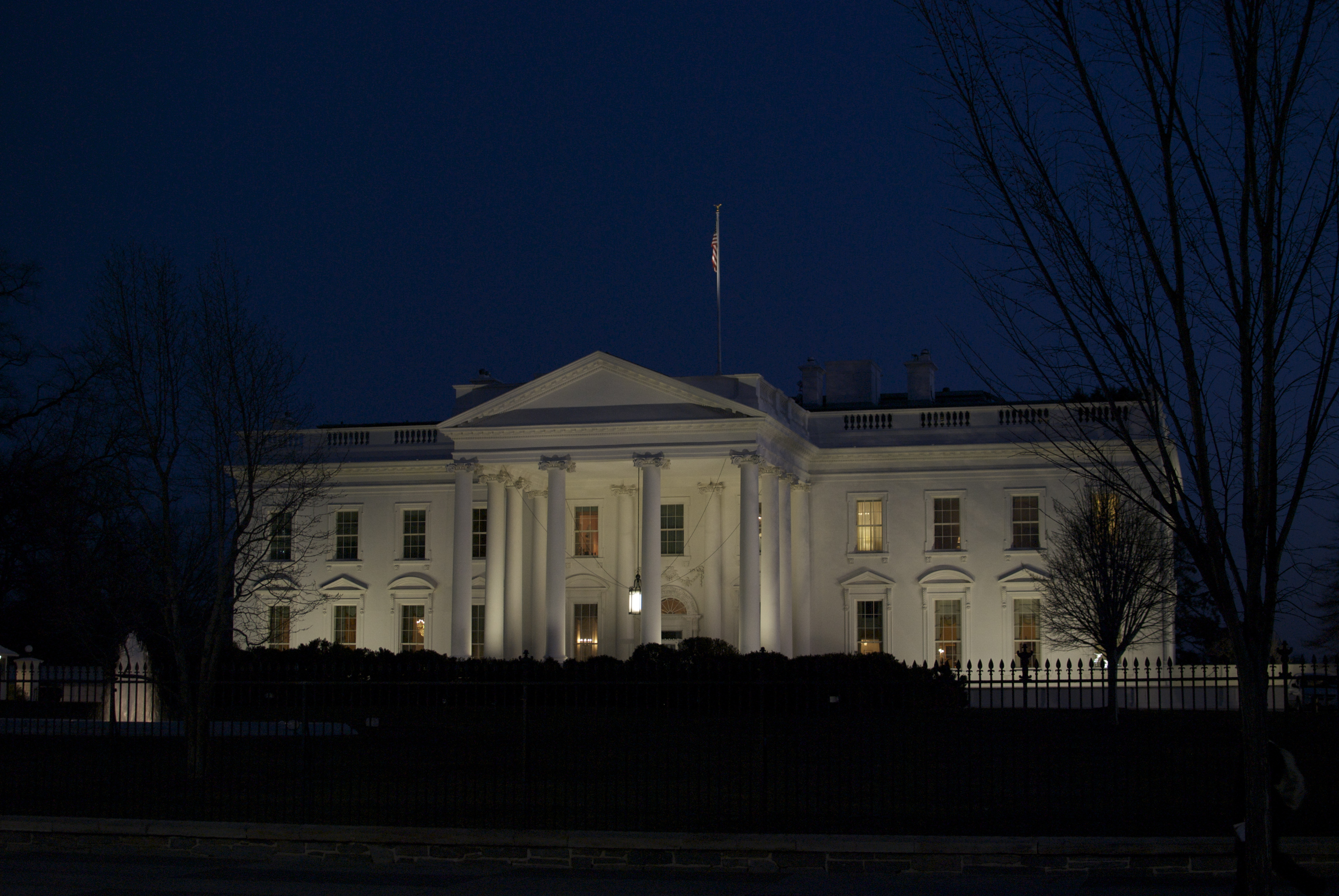 The White House